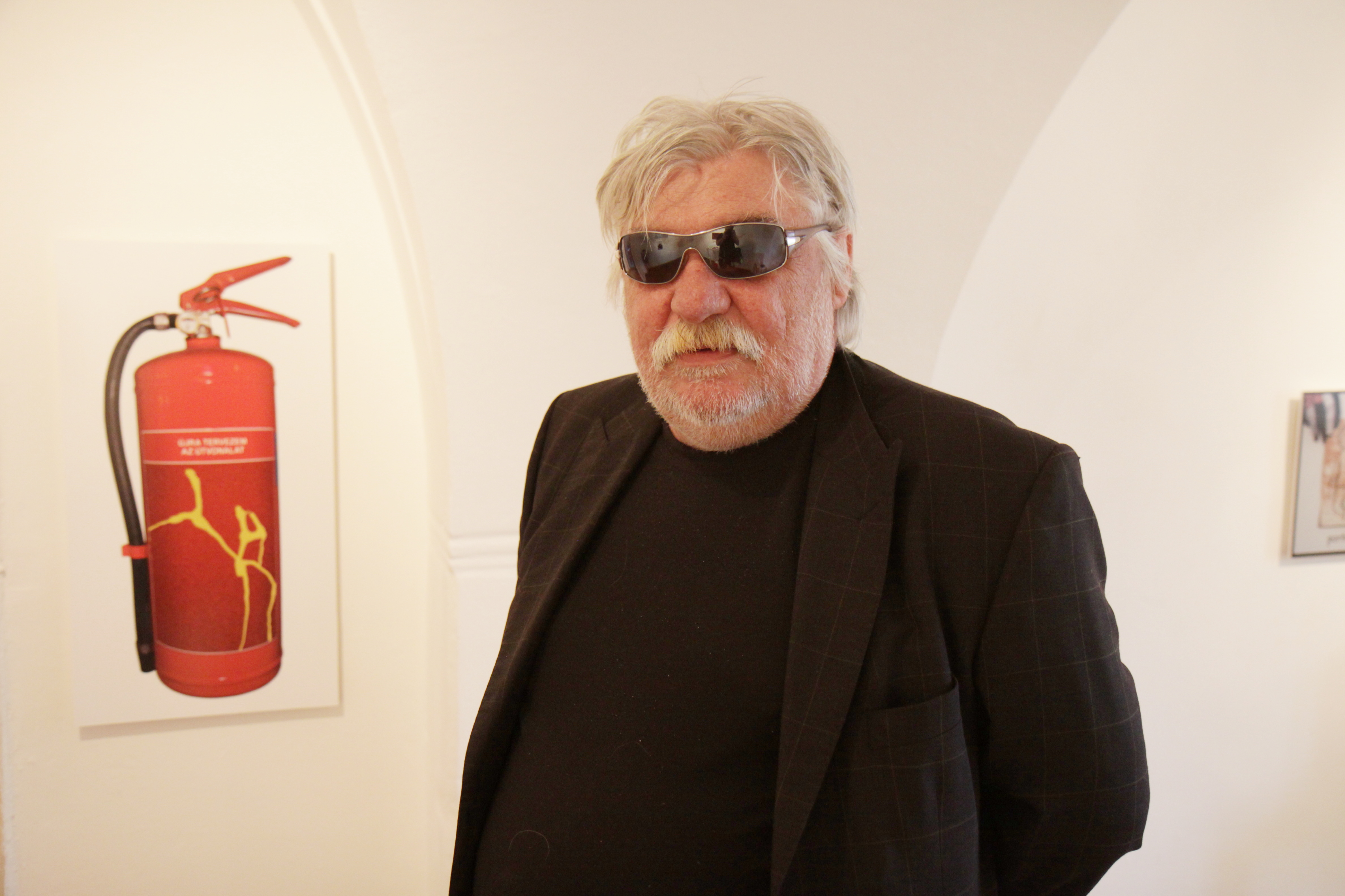 László feLugossy at an exhibition in Sárospatak (Hungary), 2010. The picture in the background is feLugossy's work: "I am rerouting" (2010)